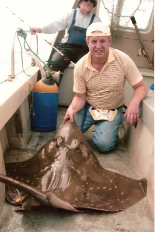 A skate caught in Ireland